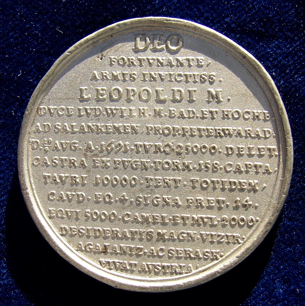 Pb medallion D. = 43 mm. Louis William, Margrave of Baden ("Turk Louis"), 1677 - 1707 As a military commander in the service of the Holy Roman Empire, in 1689 he was made chief commander of the Imperial army in Hungary, where he scored a resounding victory against the Ottomans at Slankamen in 1691. Portrait r., around: "LVD. WILH. M. BADEN. & HOCHB. EX. CAES. GEN. LOVCUMT."/ 14 lines: "DEO FORTVNANTE, ARMIS INVICTISS. LEOPOLDI M.DVCE LVD. WILH. M. BAD. ET HOCHB. AD SALANKEMEN, PROP. PETERWARAD. D. 19./9. AVG. A. 1691. TVRC. 25000.DELET. CASTRA EX PVGN. TORM. 158 CAPTA, TAVRI 10000. TENT. TOTIDEM, CAVD. EQ. 4. SIGNA PRET. 14. EQVI 5000. CAMEL. ET MVL. 2000. DESIDERATIS MAGN. VIZIR. AGAIANITZ. AD SERASK VIVAT AVSTRIA". Julius 375; Goppel 1319. Medallist: G.H. (Georg Hautsch), 1659 Nürnberg - 1745 Vienna Condition: EXTREMELY FINE.